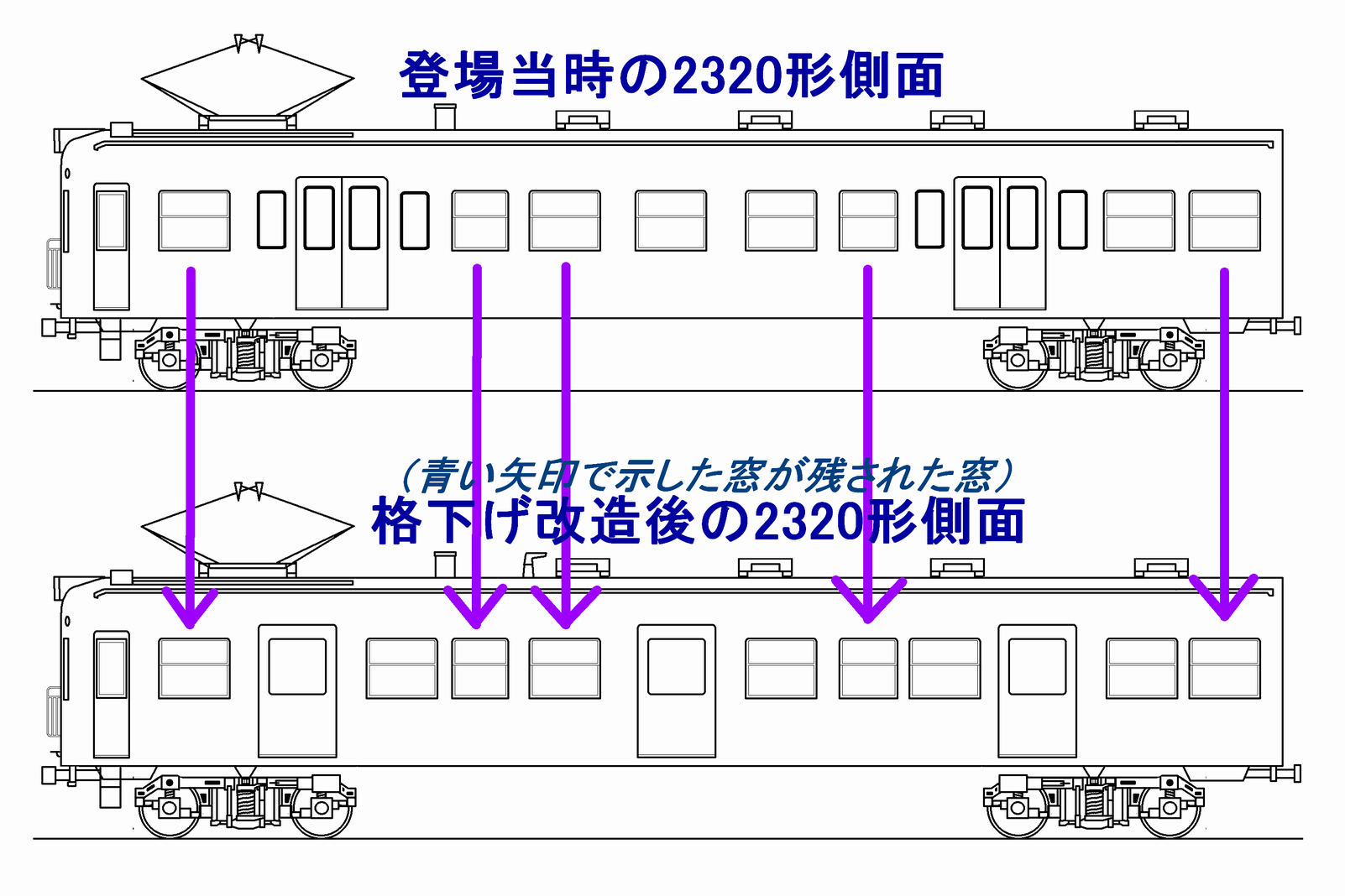 The side view of the EMU series 2320 of Odakyu Electric Railway.